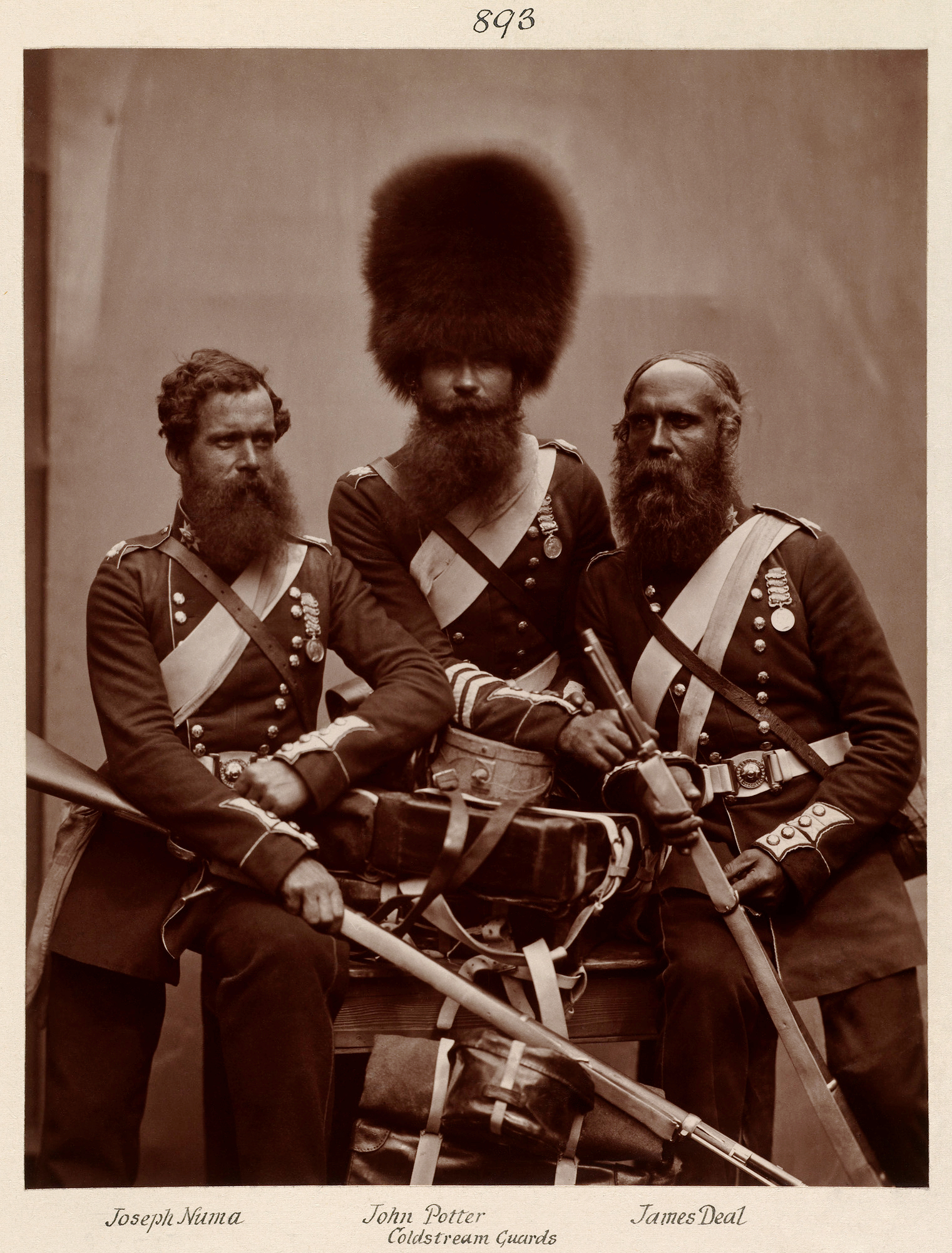 Heroes of the Crimean War: Joseph Numa, John Potter, and James Deal of the Coldstream Guards. From the collection of Queen Victoria of the United Kingdom. Printed in carbon; 45.5 x 35.5 cm.